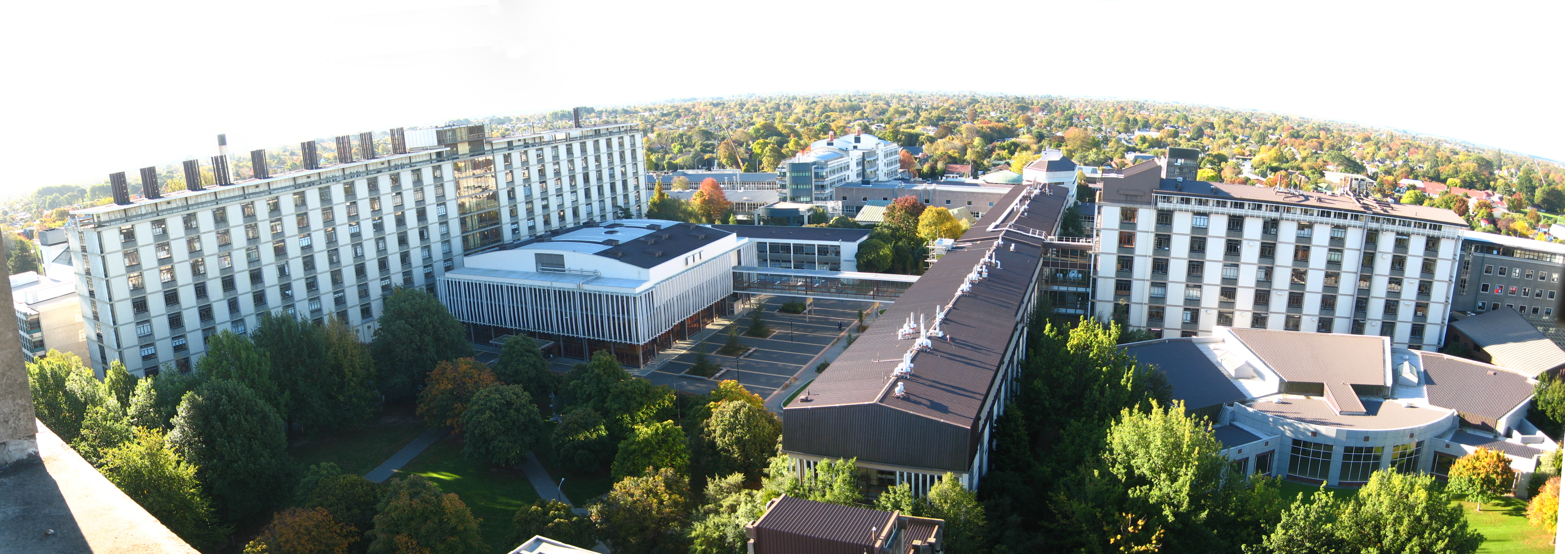 View from Central Library, University of Canterbury, Christchurch.